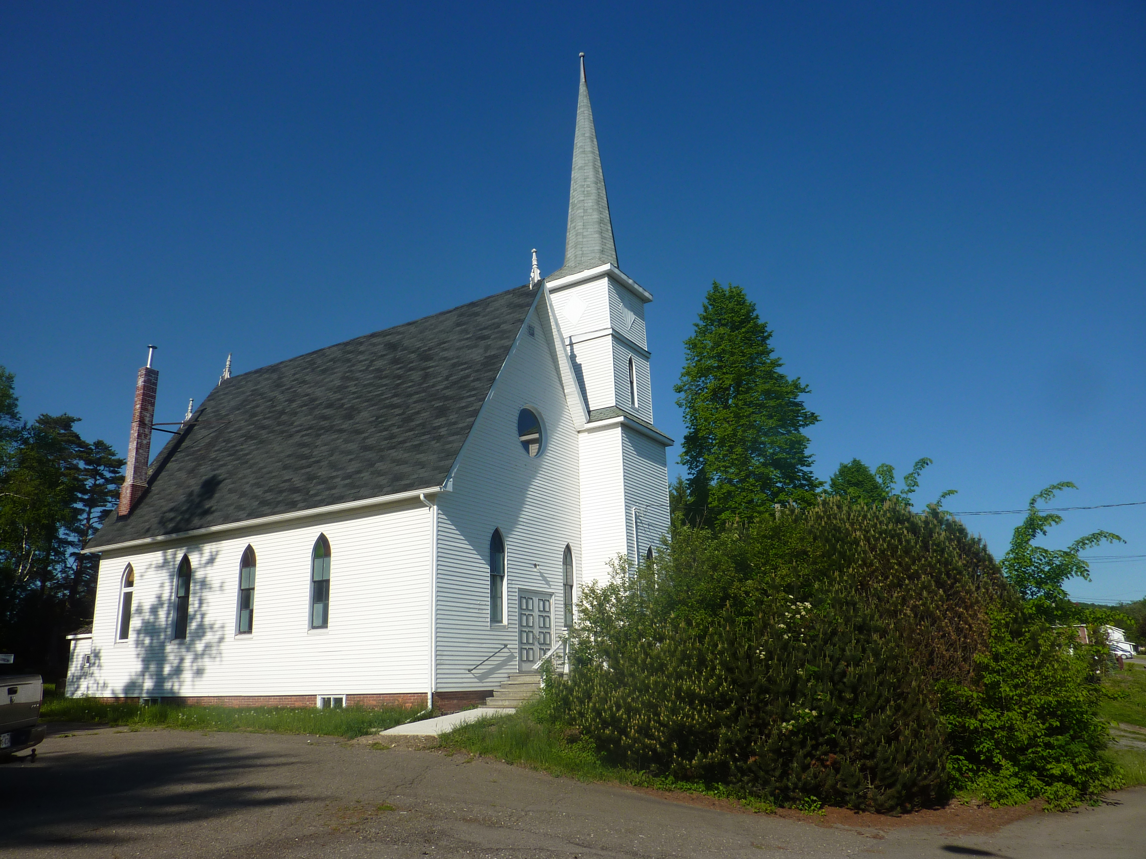 Bristol United Church's church, New Brunswick